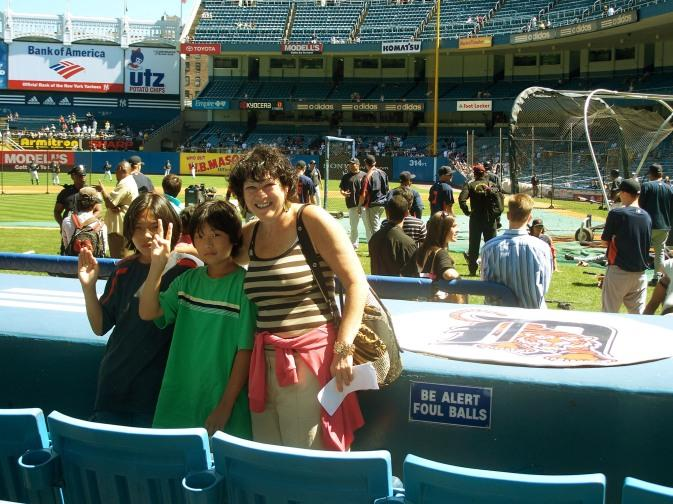 Future Associate Justice Sonia Sotomayor with nephews Conner and Corey Sotomayor at Yankee Stadium. Part of a slide show, "Sotomayor Bio: Picutures from Throughout Judge Sotomayor's Life" According to the May 2009 White House copyright policy, "Except where otherwise noted, third-party content on this site is licensed under a Creative Commons Attribution 3.0 License." No alternative licensing information is given for these photos, so they are assumed to be available under the Creative Commons Attribution 3.0 License.